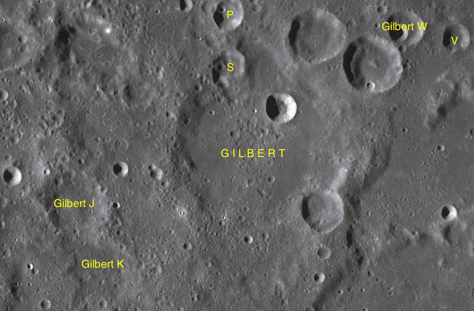 Part of the chart LAC-81 used for the presentation